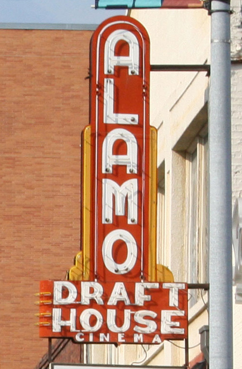 The Alamo Drafthouse sign outside of the original location in downtown Austin.